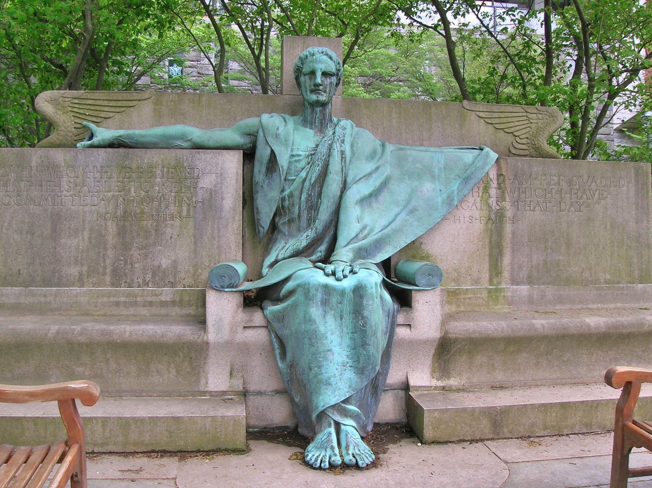 Photograph of a statue of Noah Webster (1914) sculpted by Willard D. Paddock, located in Amherst, Massachusetts